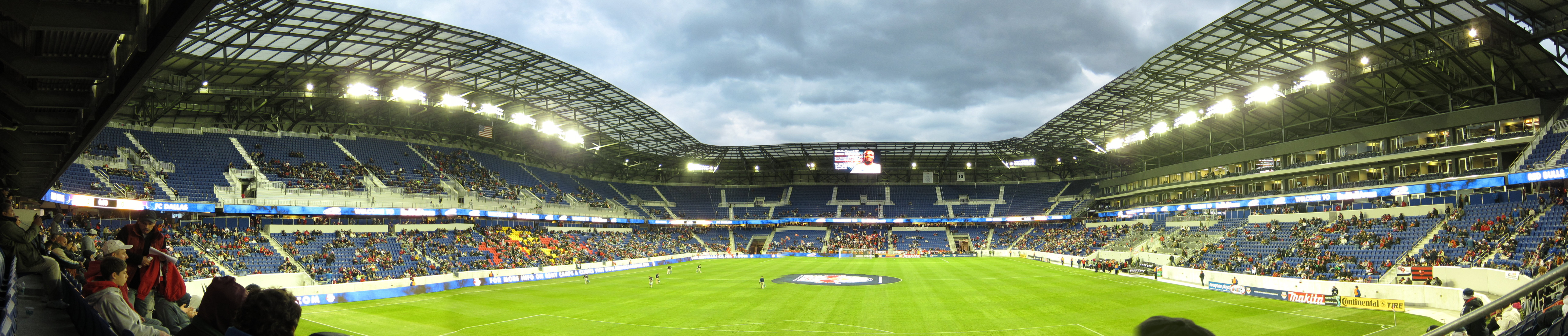 New York Red Bull Home Game